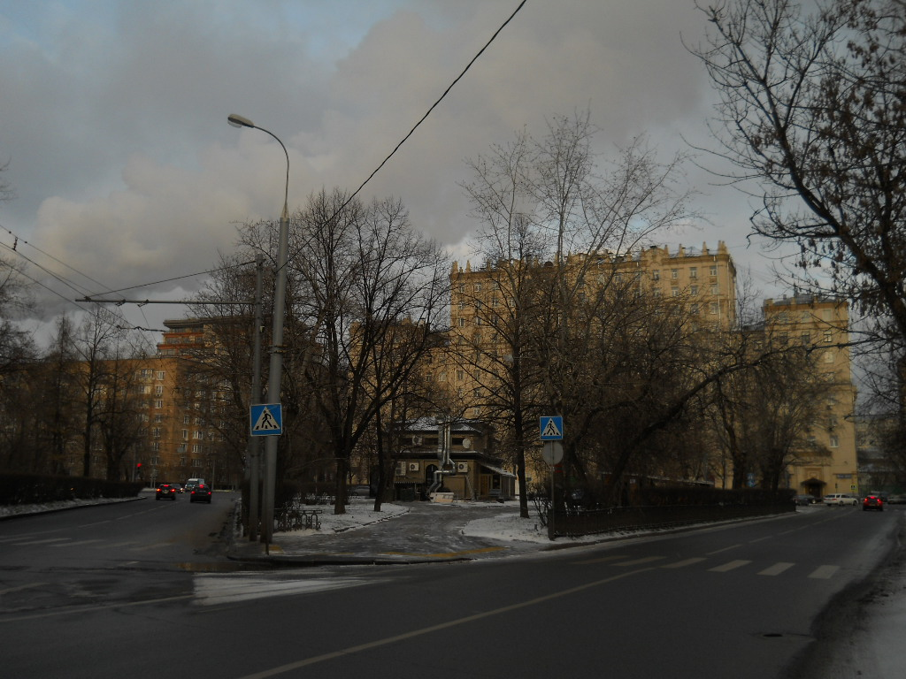 Moscow, Corner of Luzhnetsky Lane and Malaya Pirogovskaya Street.